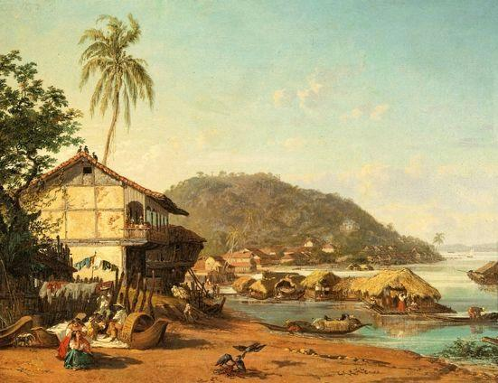 Port of Guayaquil in 1846 by Ernest Charton de Treville.